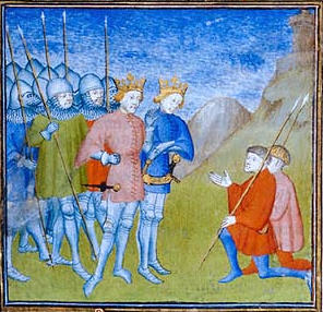 Gontran and Childebert II